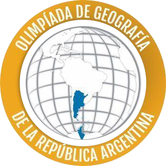 banner of argeo